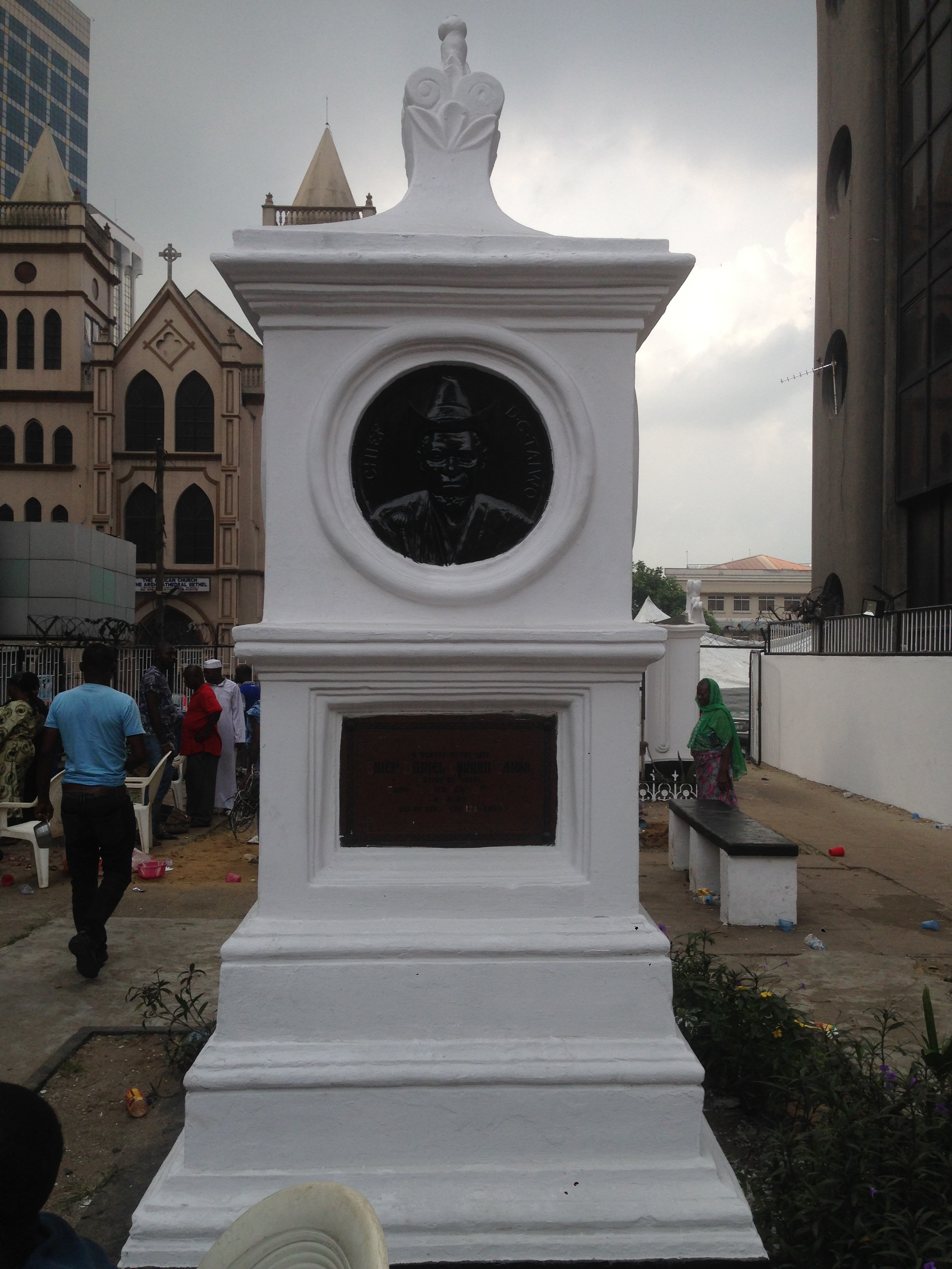 Cenotaph to Daniel Conrad Taiwo along Broad Street